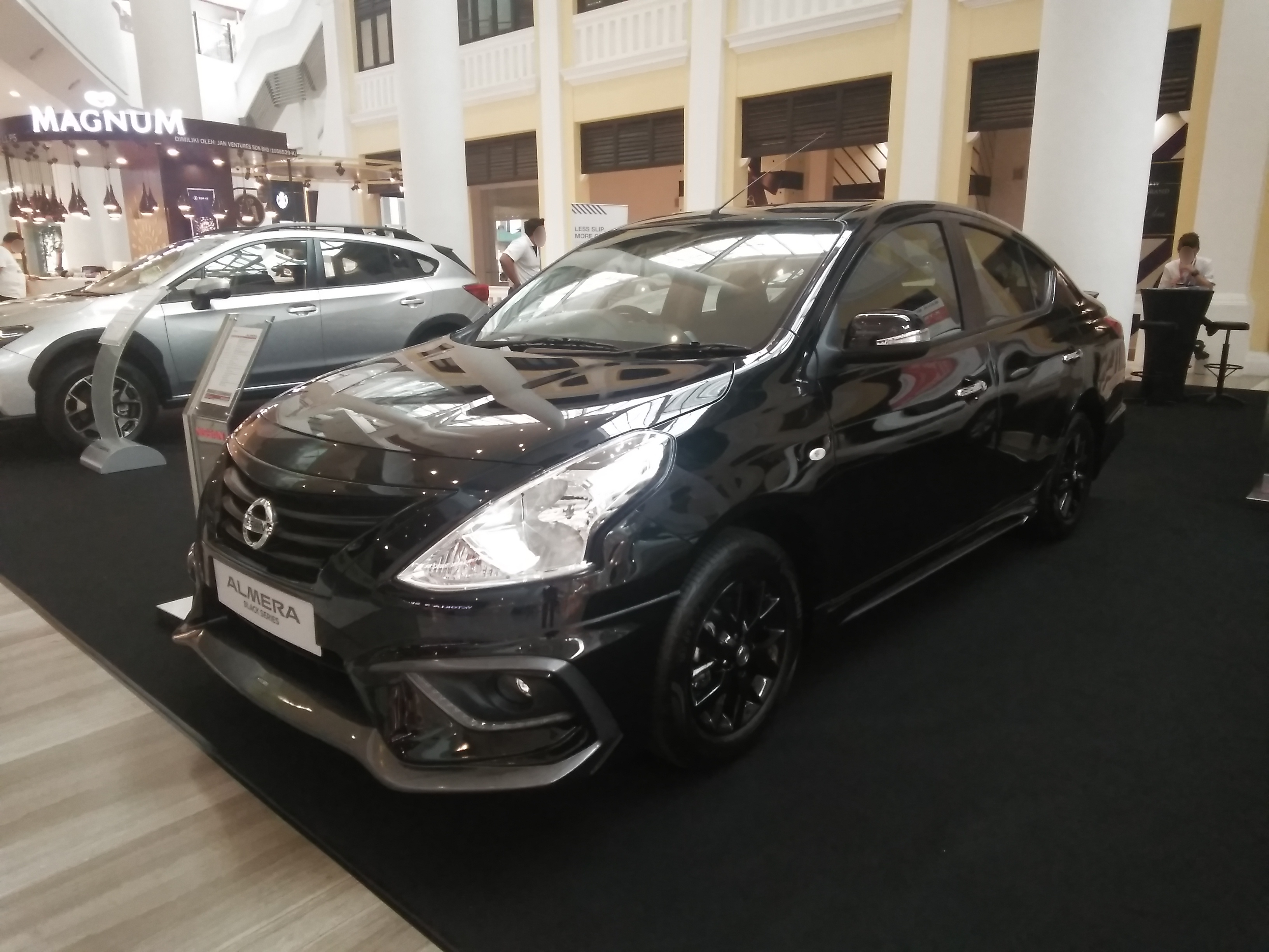 2018 Nissan Almera VL 4AT Black Edition